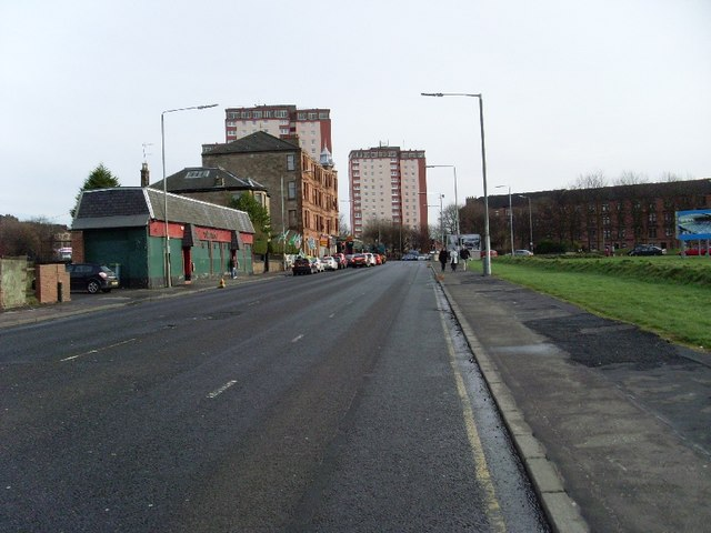 Parkhead Original description: Looking east along London Road